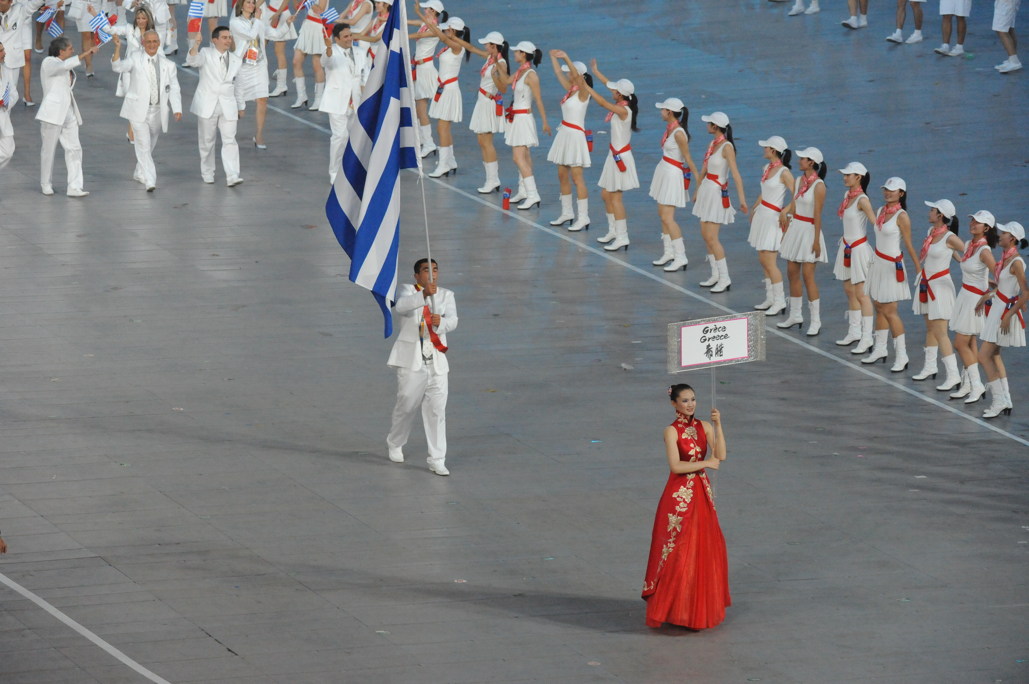 2008 Summer Olympics - Opening Ceremony - Ilias Iliadis